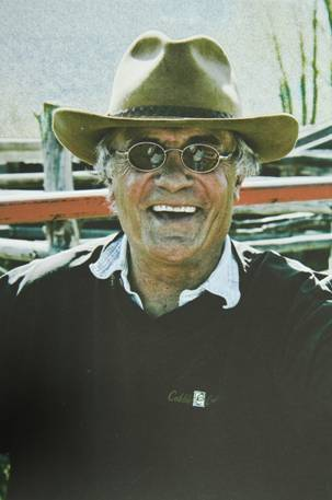 American actor Terry Kiser